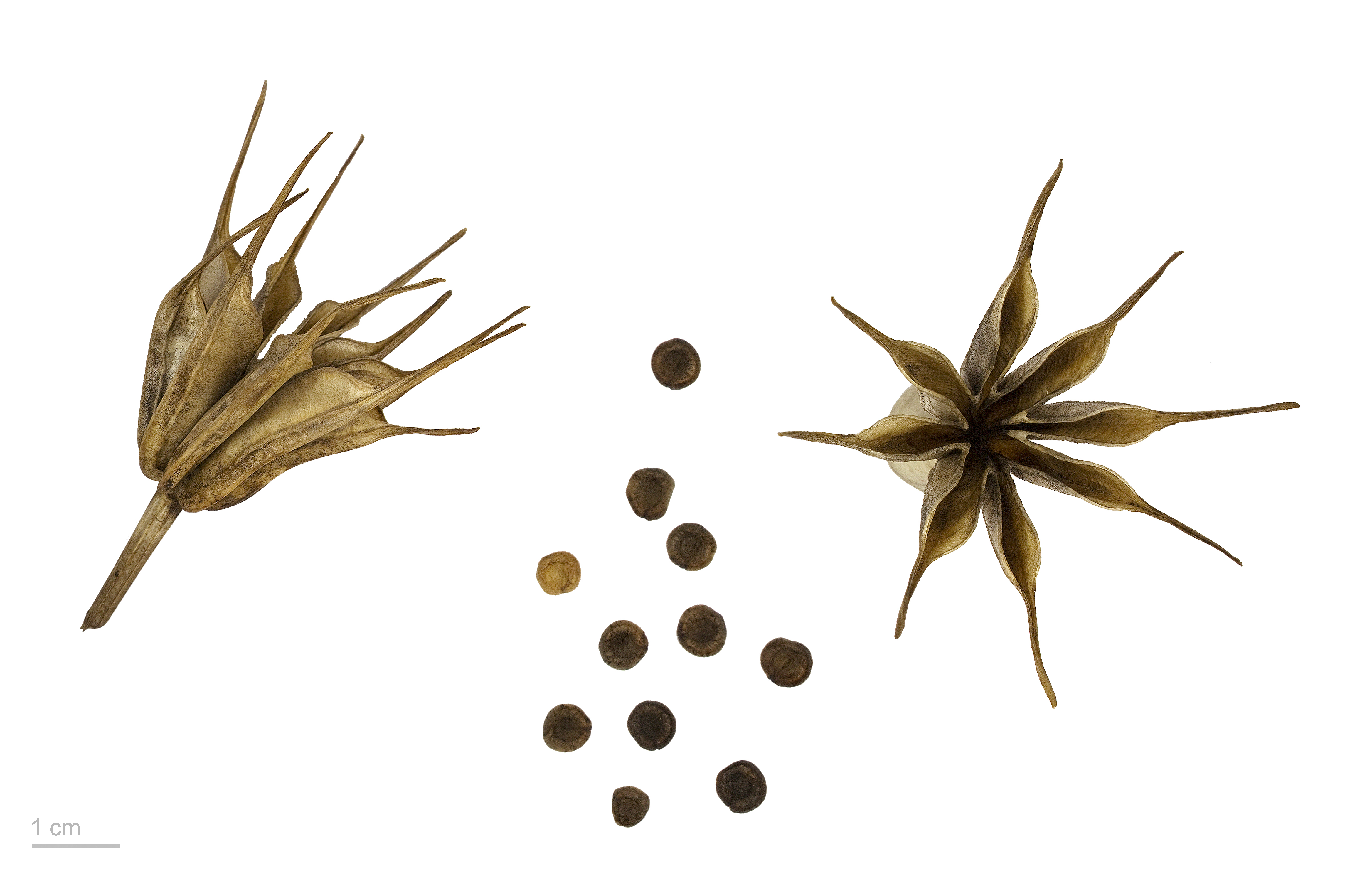 Nigella , fruits and seeds